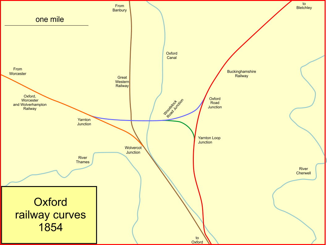 Diagram of the railway connections north of Oxford station, UK, in 1854